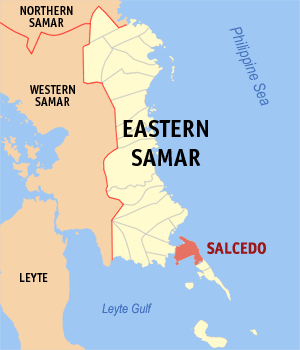 Map of Eastern Samar showing the location of Salcedo